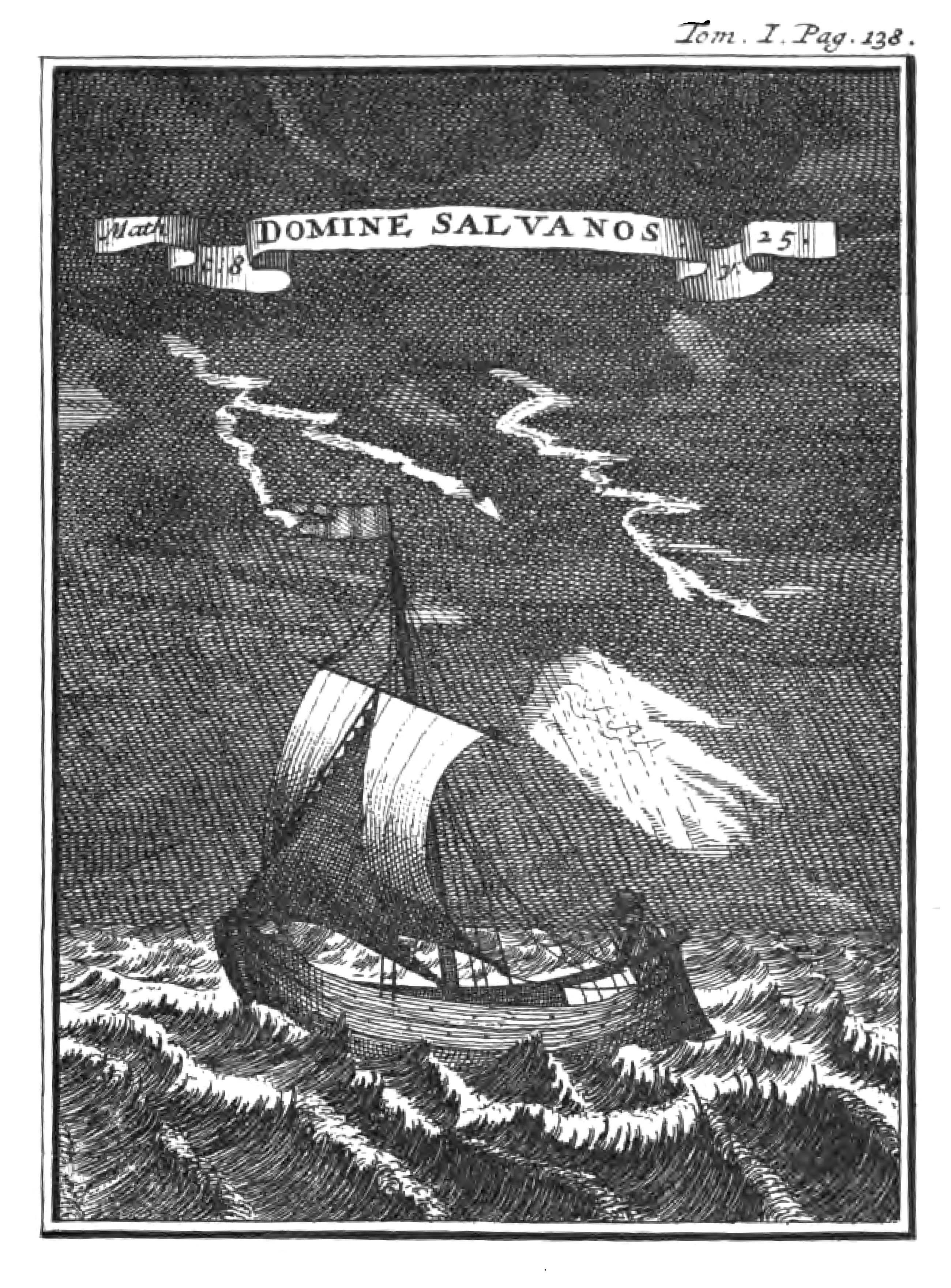 From Leguat, François (1891), The voyage of François Leguat of Bresse, to Rodriguez, Mauritius, Java, and the Cape of Good Hope. 2 Volumes., Edited and annotated by S. Pasfield Oliver, London: Hakluyt Society. It is a facsimile of a figure from: Leguat, François (1708), Voyage et avantures de François Leguat & de ses compagnons en deux isles desertes des Indes Orientales. 2 Volumes., London: Mortier.